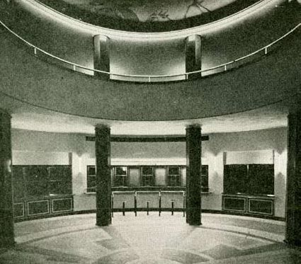 Stockholms östra, railway station in Stockholm (Sweden), designed by architect Albin Stark, inaugurated in 1932